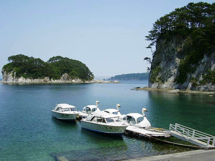 Jōdogahama.